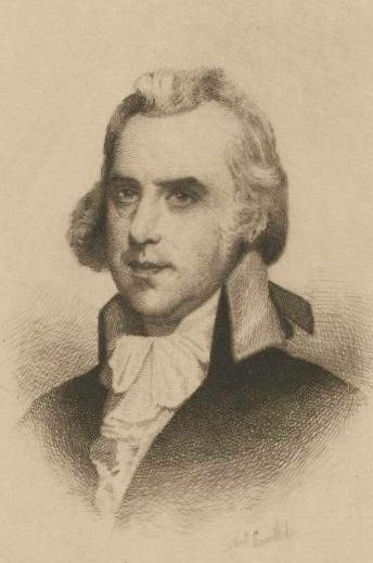 George Hammond, British Minister Plenipotentiary to the U.S. 1791-1805.